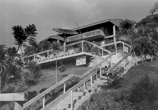 Palau Continental Hotel in 1977, later known as "Hotel Nikko Palau"